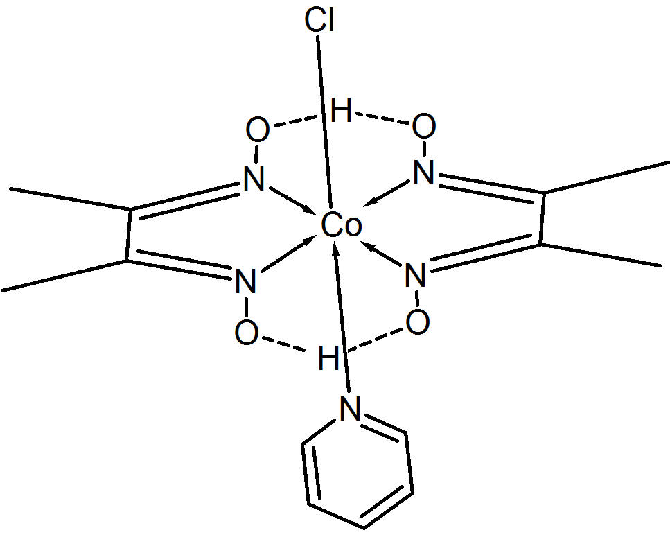 Structure of Chloro(pyridine)cobaloxime, fixed coordinating bond